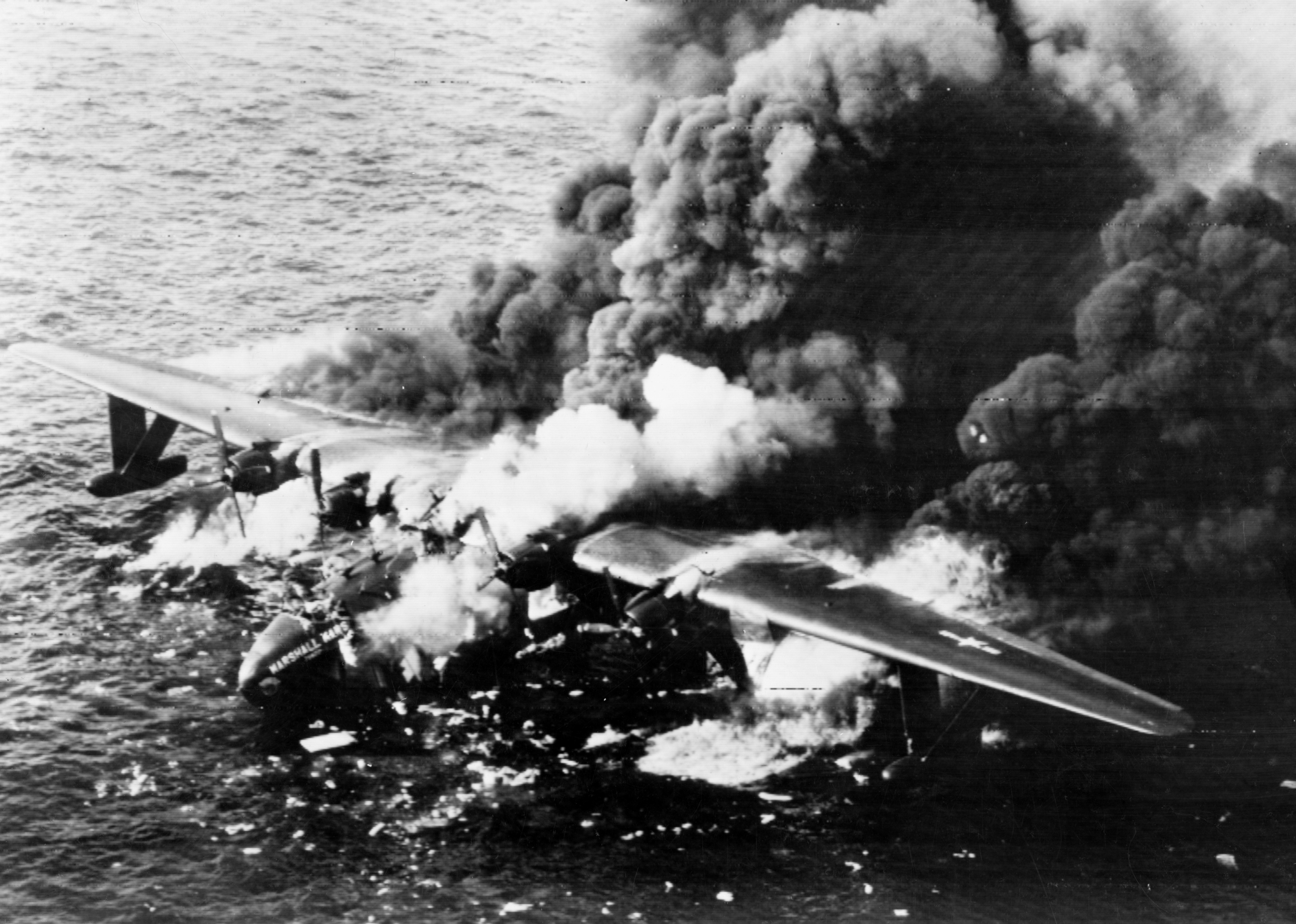 The Martin JRM-2 Marshall Mars of transport squadron VR-2 burning on the Pacific Ocean off Honululu, Oahu, Hawaii (USA) on 5 April 1950. A fire in engine No. 2 (left inboard) had forced the crew to ditch.